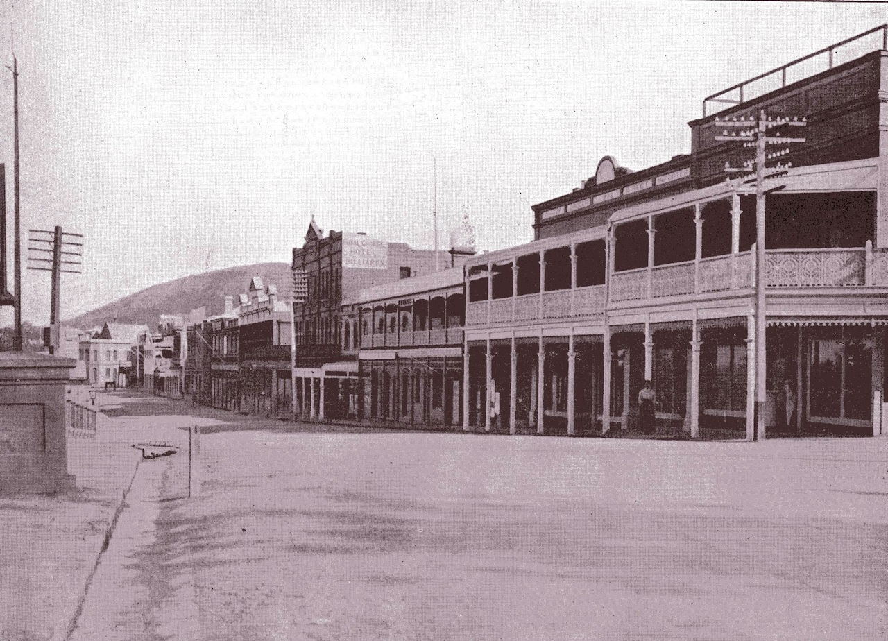 Stirling Terrace in 1912 looking West Alluring Albany : handbook for the port and back country and guide to the chief West Australian health resort (3rd year of publication ed.), W.F. Forster & Co Retrieved on 27 January 2017.